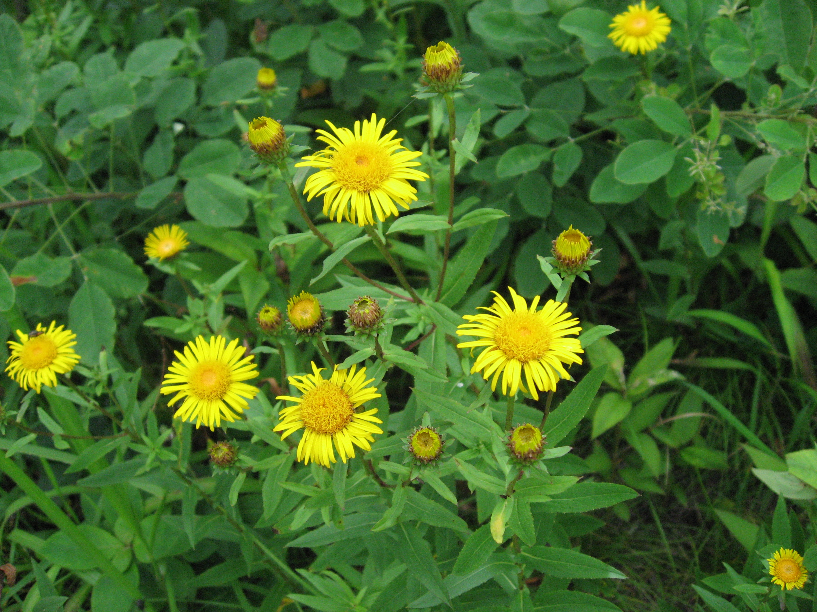 Inula salicina var. asiatica, Aizu area, Fukushima pref., Japan